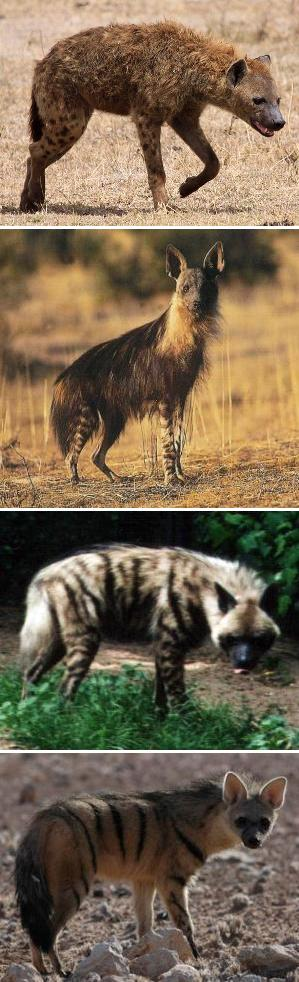 All four extant species of hyenas